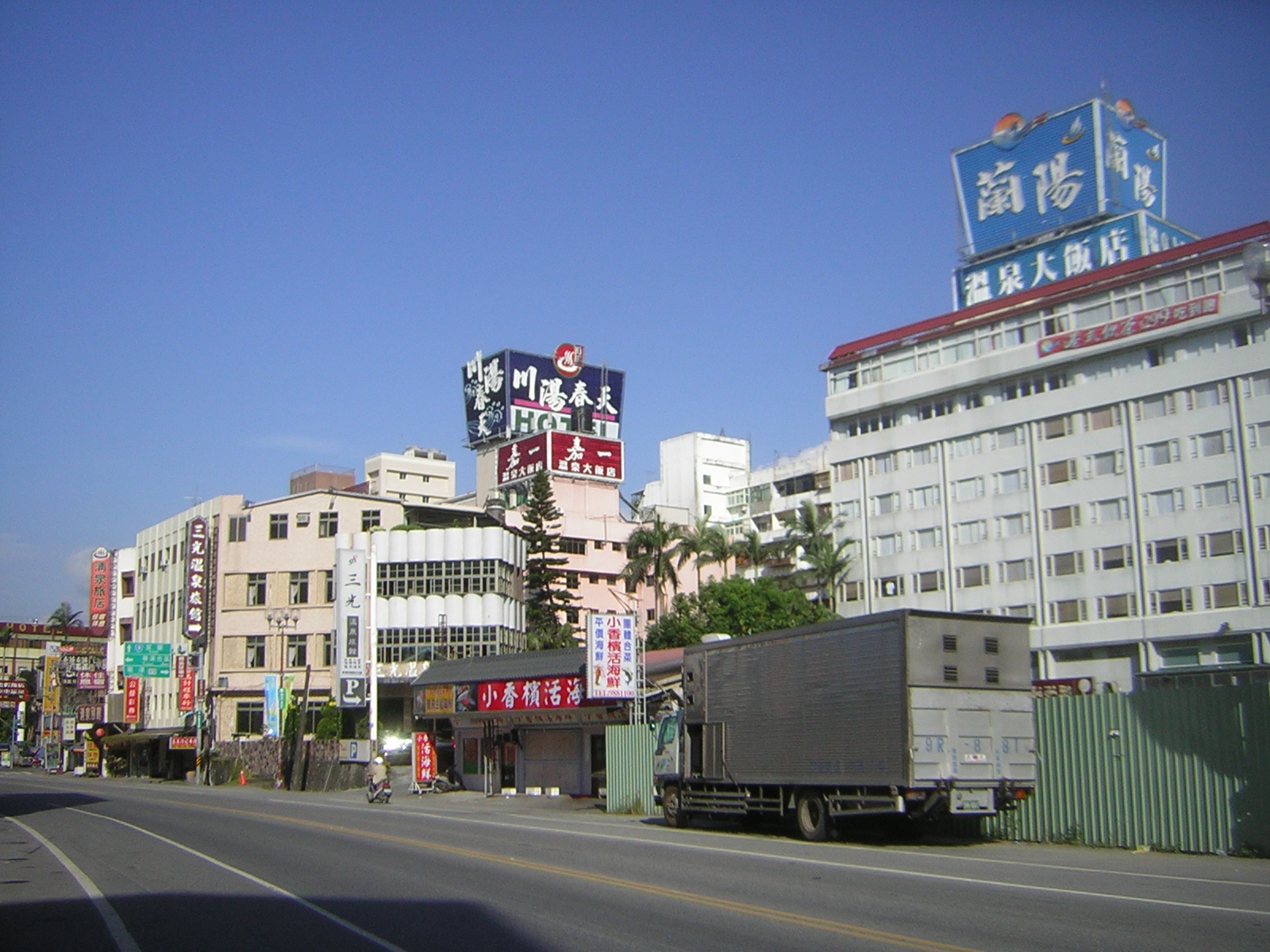 礁溪德陽路一帶林立的溫泉飯店。 Hotels of Jiaosi Hot Spring at Road Deyang, Jiaosi, Yilan, Taiwan, which are popular in Taiwan.